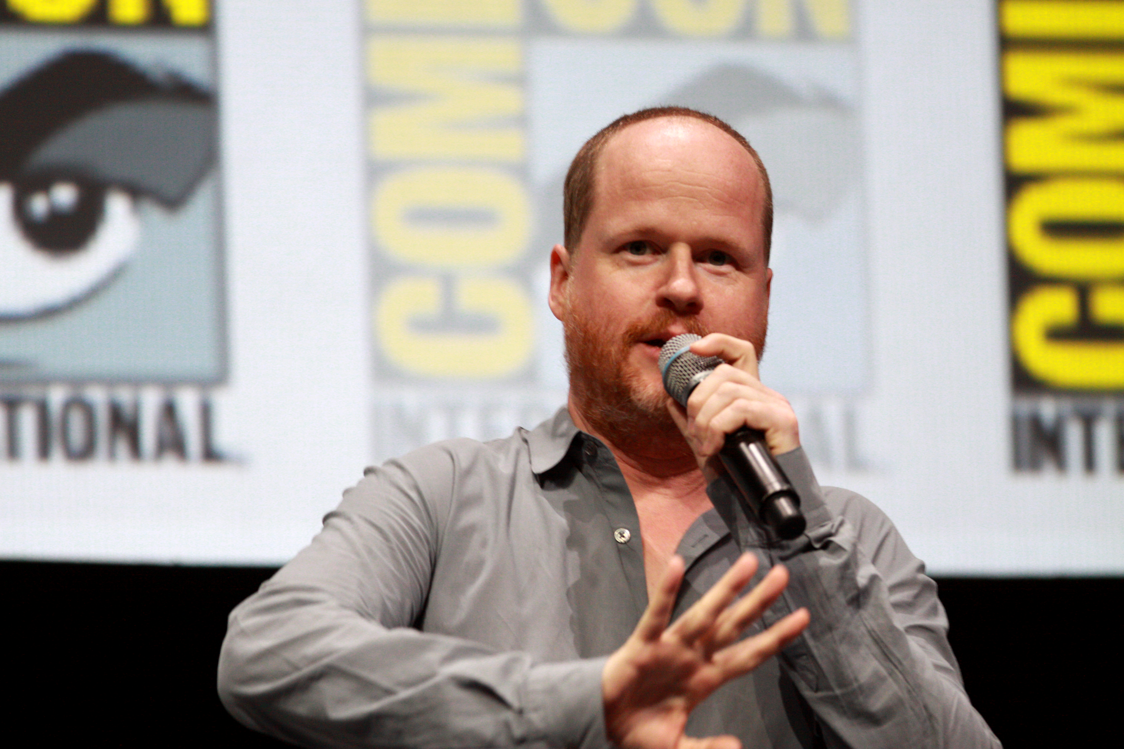 Joss Whedon speaking at the 2013 San Diego Comic Con International, for "The Avengers: Age of Ultron", at the San Diego Convention Center in San Diego, California.